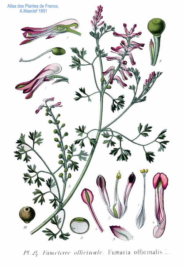 Fumaria officinalis L.